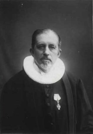 Christian Rasmussen (1846-1918), Danish priest, missionary in Greenland